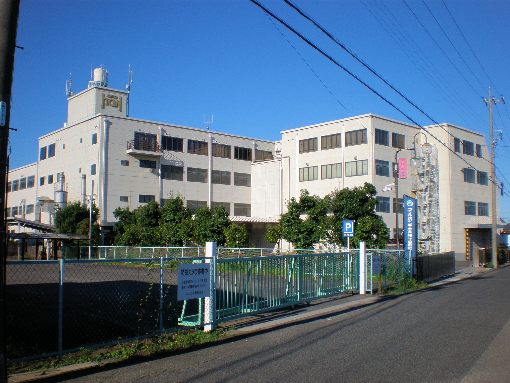 This is the head office of Maruhon Industry Co.,Ltd in Kasugai, Aichi pref.